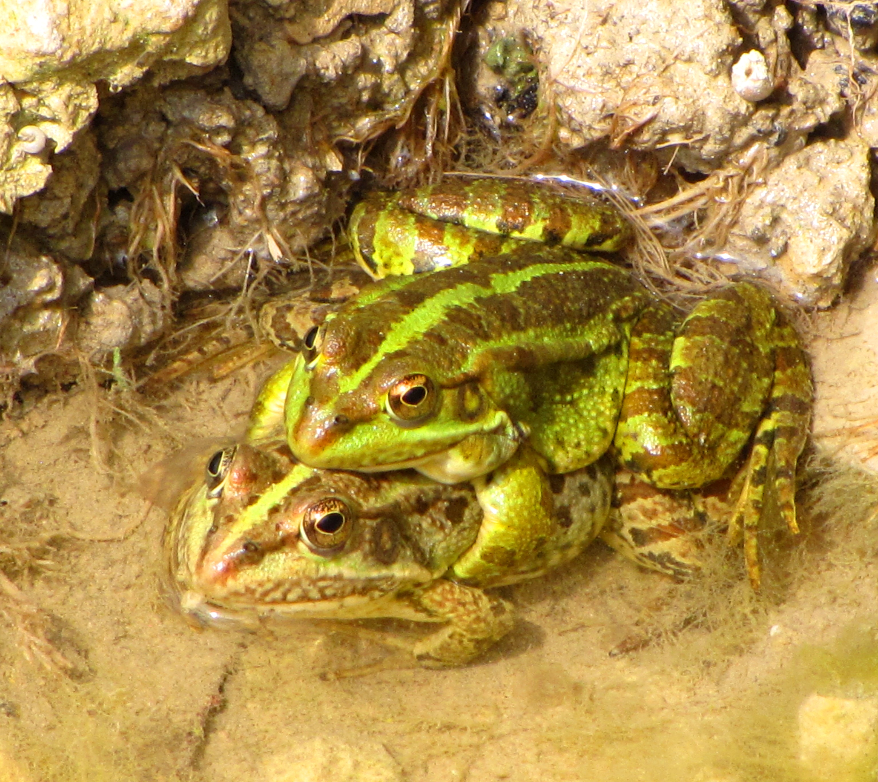 Mating Levant Water Frogs on Malta Photo by Arnold Sciberras